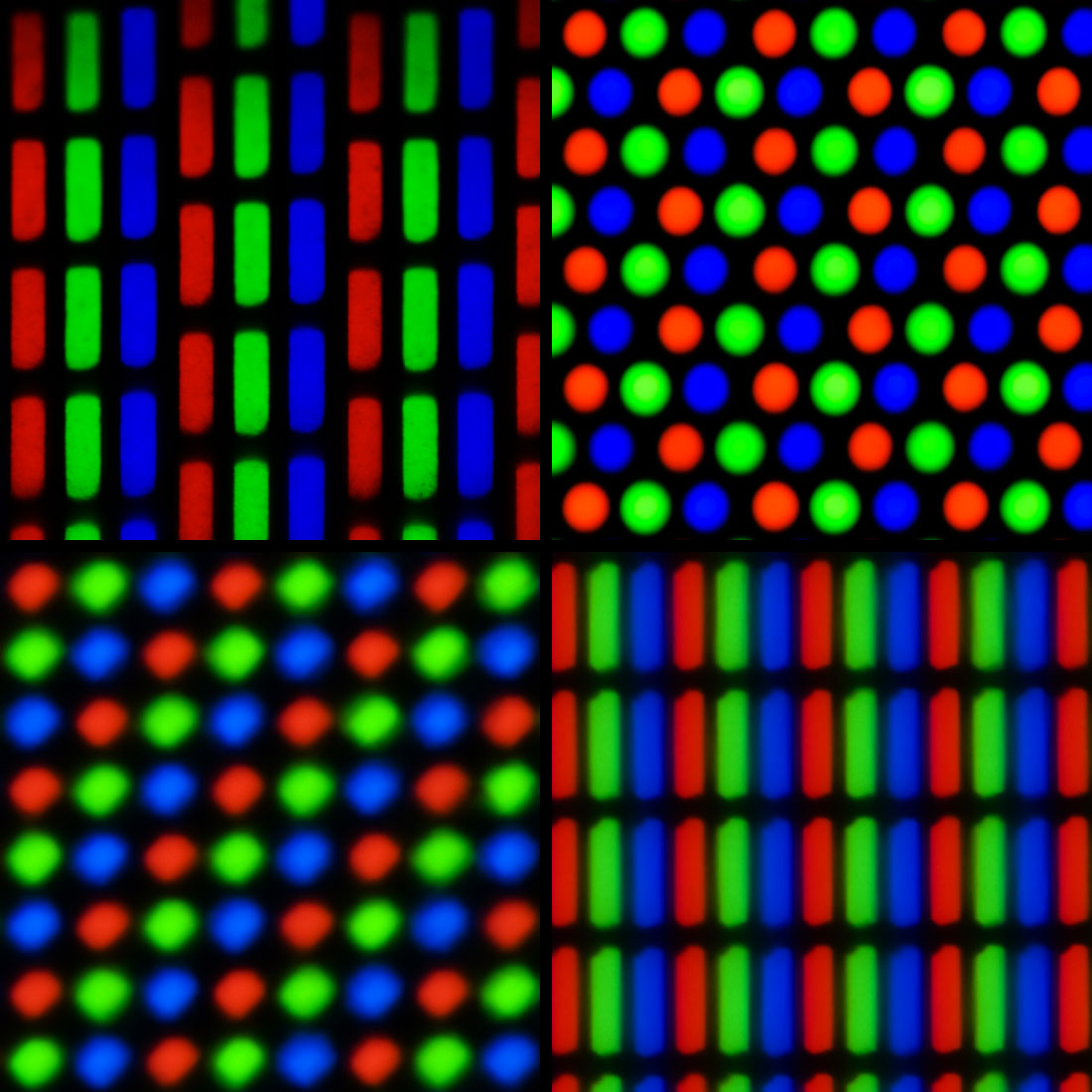 Pixel geometries. Clockwise from top left: a standard definition CRT television. "Palsonic" brand. (this image is significantly reduced compared to others) a CRT computer monitor. Diamond View 19" (18" viewable). Model 1995SL. a laptop LCD: Lenovo X61, 12" 1024×768 the OLPC XO-1 LCD display. (Test-B2) More information on flickr.